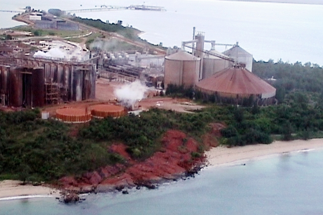 Bauxite processing plant at Nhulunbuy, Northern Territory, Australia. Freeze frame from digital video shot by me from inside helicopter